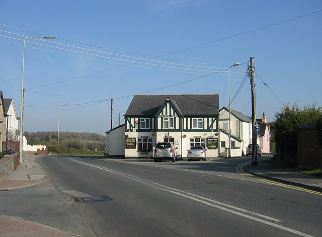 Dynevor Arms, Groes - Faen. The Dynevor Arms is a popular pub next to the A4119 in the village of Groes - Faen.